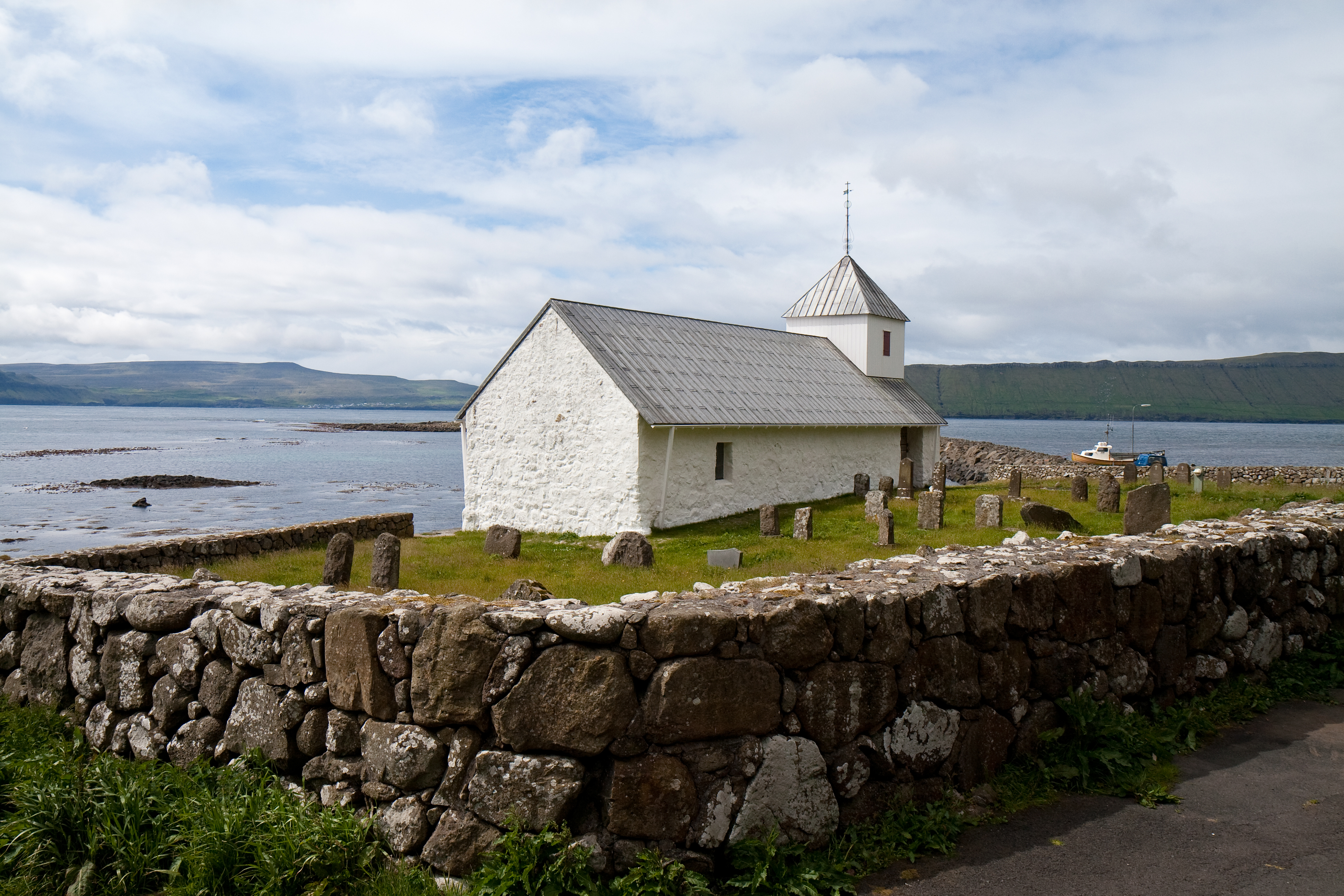 St Olafs Church, Faroe Islands.